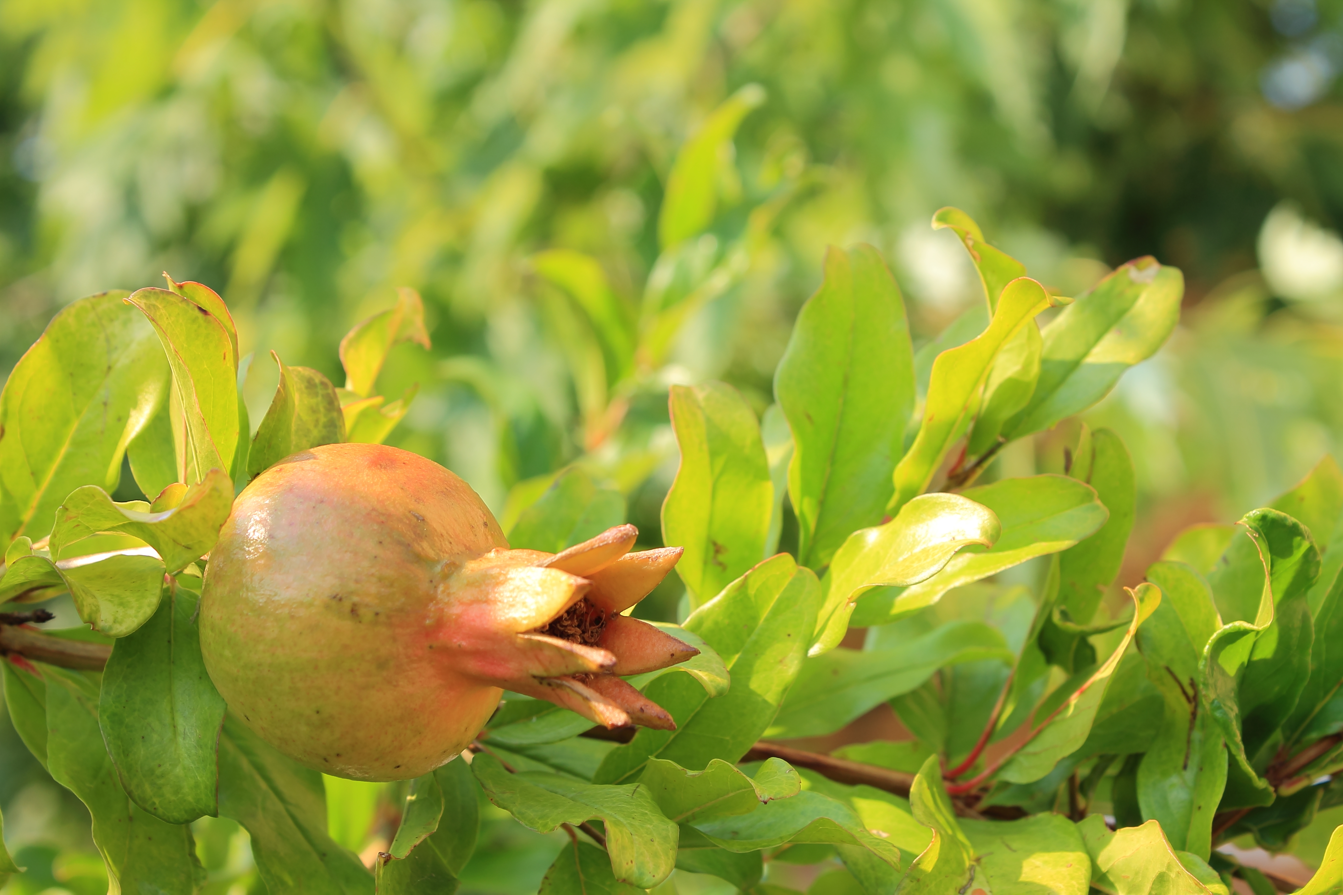 Little orange pomegranate on the tree. Cerreto Desi, Italy.